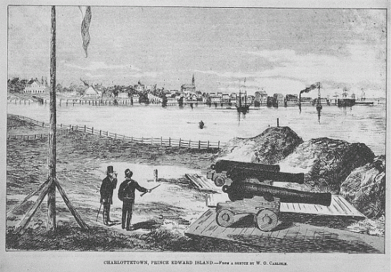 Canadian Illustrated News: vol. VI, no.3,[37]